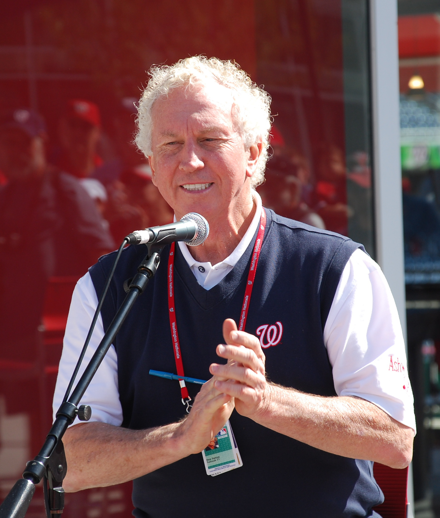 Player Q&A, Picnic in the Park (event for Washington Nationals season-ticket holders) at Nationals Park, Washington, DC